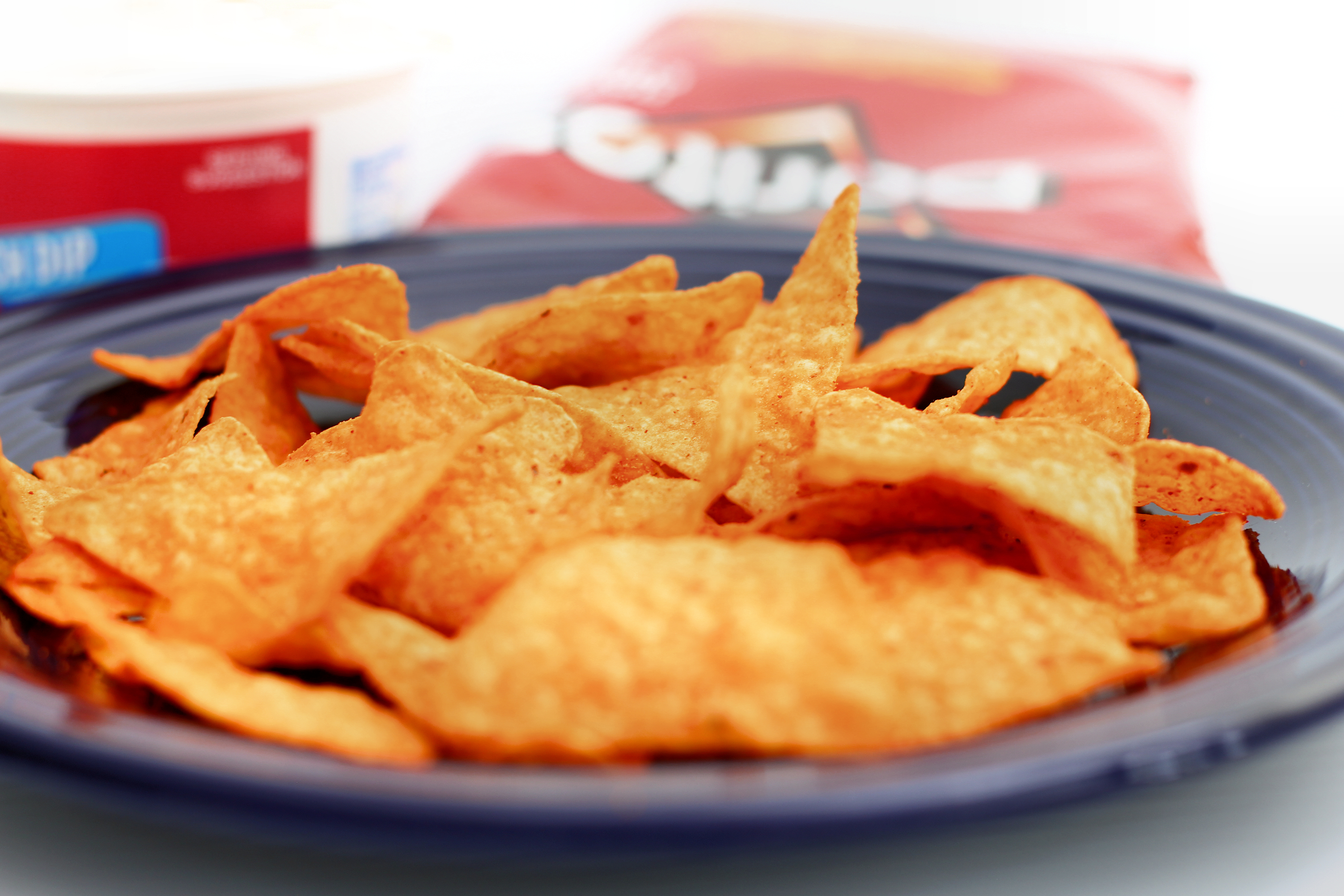 Nacho Cheese Flavor Doritos set out for a party.